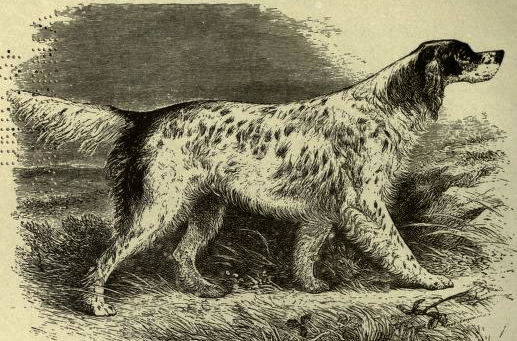 English Setter "Countess" bred by Laverack then owned/handled by Llewellin. The first gundog Dual Champion